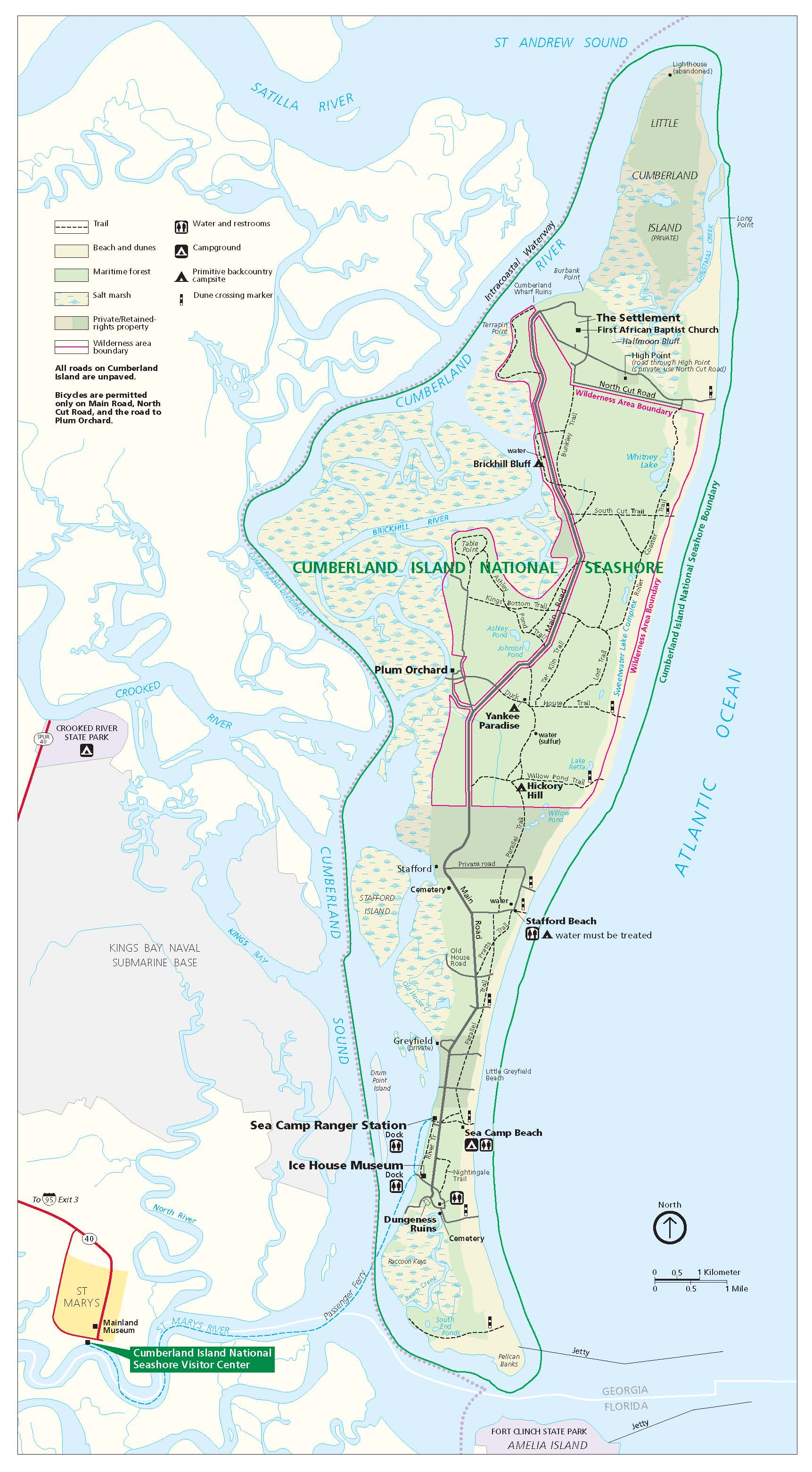 National Park Service map of Cumberland Island National Seashore and Cumberland Island — in Camden County, on the southeastern coast of Georgia. Credits Converted from PDF using Adobe Acrobat 7.0 Professional. Original file name: CUISmap1.pdf